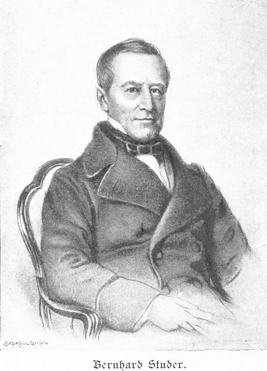 Bernhard Studer Desaturate image from: Title: "Die Schweiz im neunzehnten Jahrhundert. Herausgegeben von schweizerischen Schriftstellern unter Leitung von P. Seippel" Author: SEIPPEL, Paul. Shelfmark: "British Library HMNTS 9305.h.2." Volume: 02 Page: 238 Place of Publishing: Lausanne Date of Publishing: 1899 Issuance: monographic Identifier: 003330970 Explore: Find this item in the British Library catalogue, 'Explore'. Download the PDF for this book (volume: 02) Image found on book scan 238 (NB not necessarily a page number) Download the OCR-derived text for this volume: (plain text) or (json) Click here to see all the illustrations in this book and click here to browse other illustrations published in books in the same year.